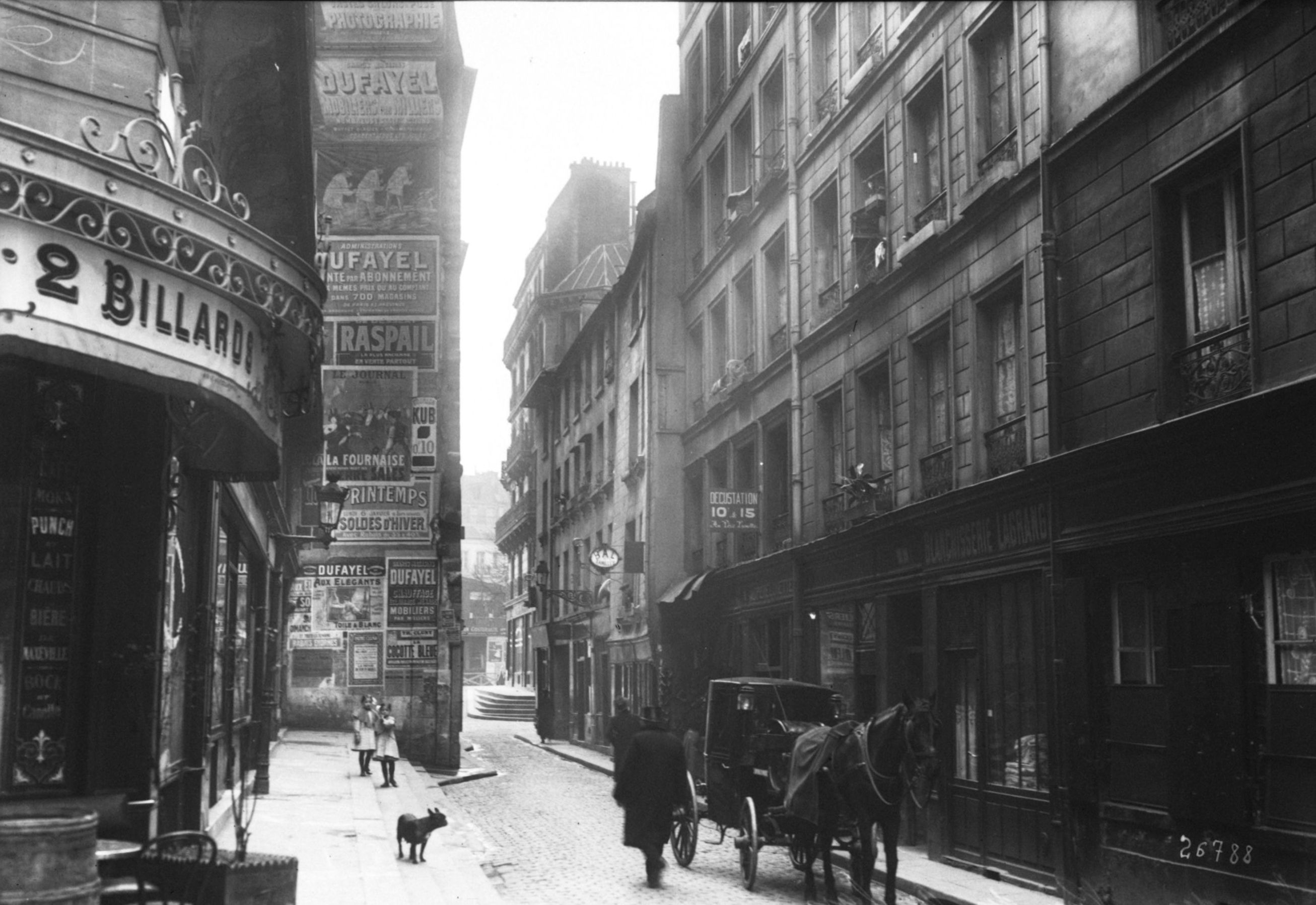 Rue des Anglais, Paris, 1913